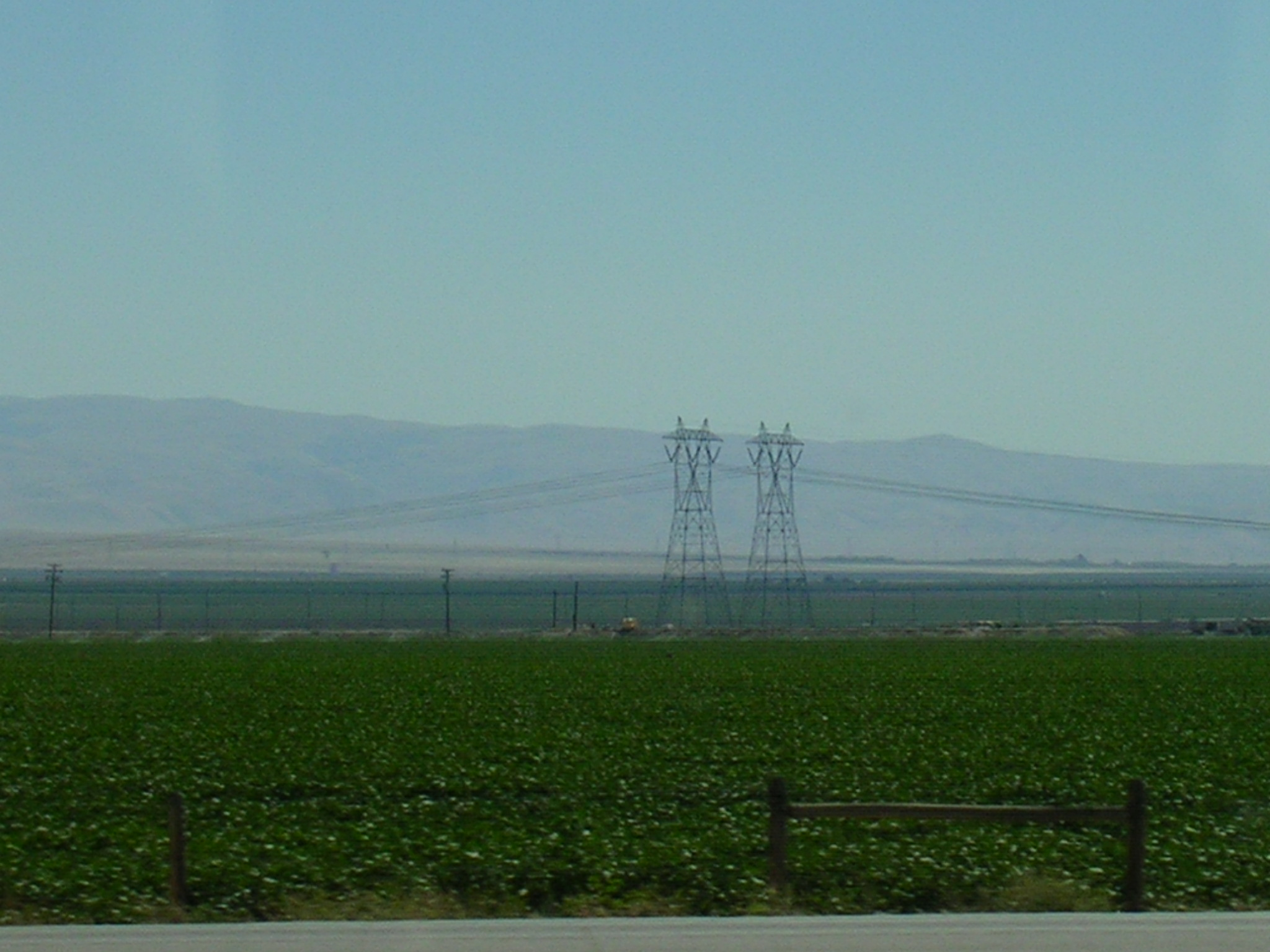 Southern California Edison's two Path 26 500 kV power lines heading north through the southern San Joaquin Valley, California, with the semiarid foothills of the Pacific Coast Ranges in the background. Taken on Northbound Interstate 5 southwest of Bakersfield, California.